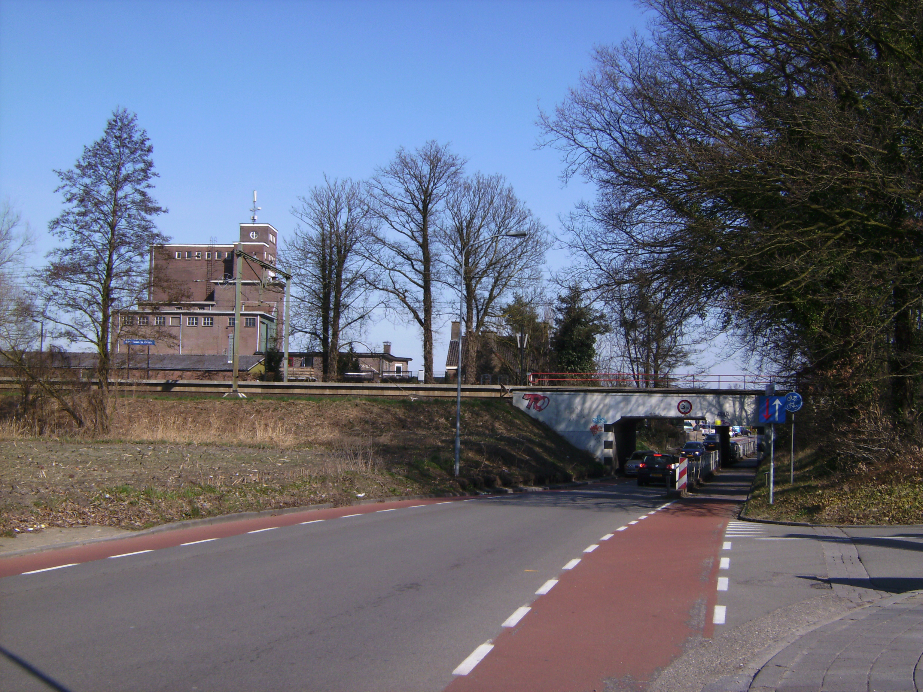 De Klomp, viaduct near station Veenedaal-de Klomp